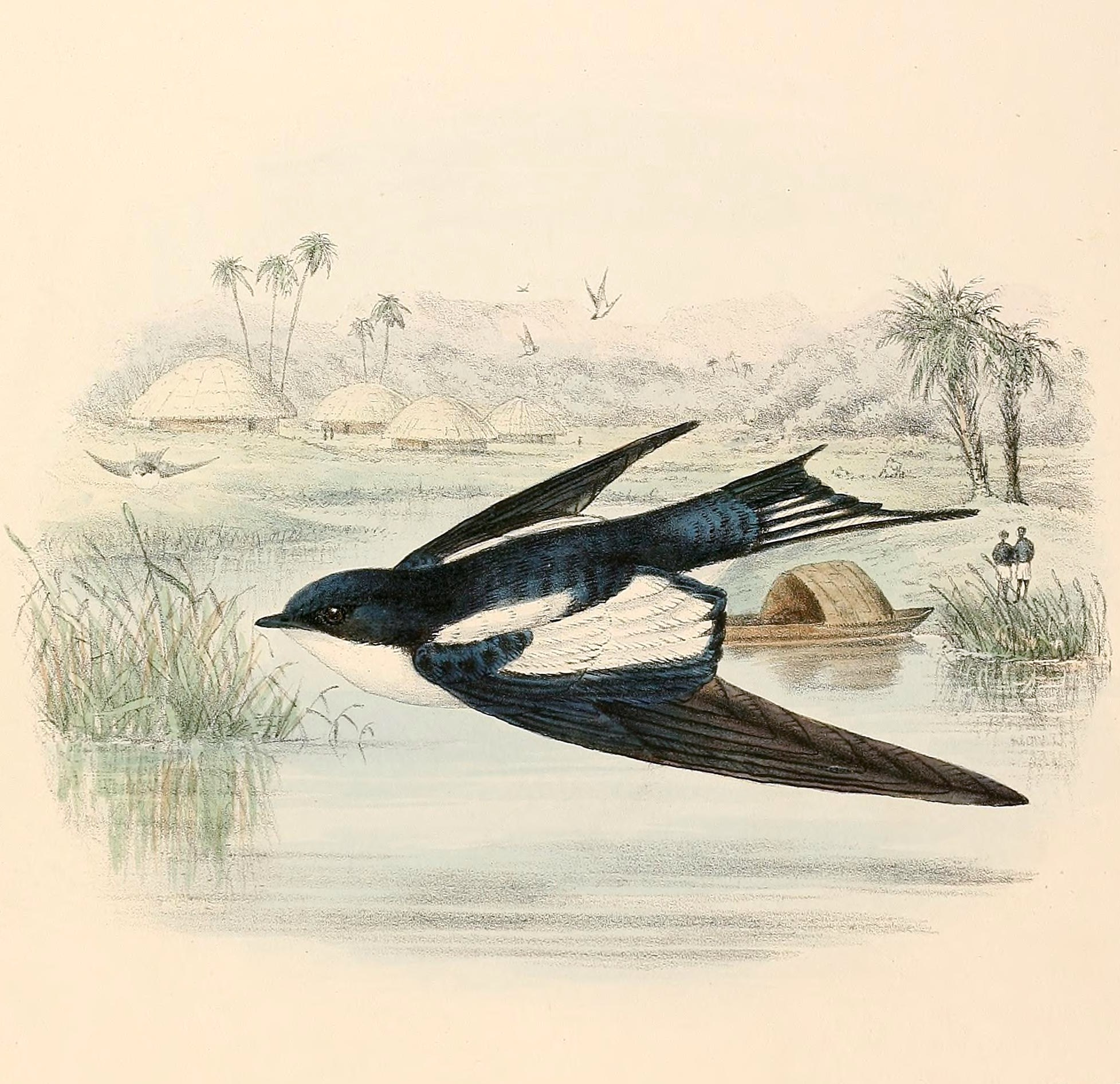 « Hirundo leucosoma » = Hirundo leucosoma (Pied-winged Swallow)